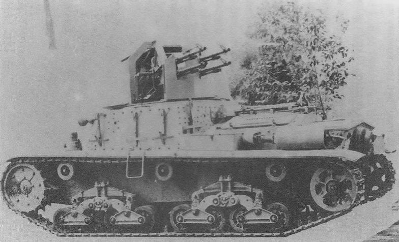 WWII italian self-propelled anti-aircraft weapon